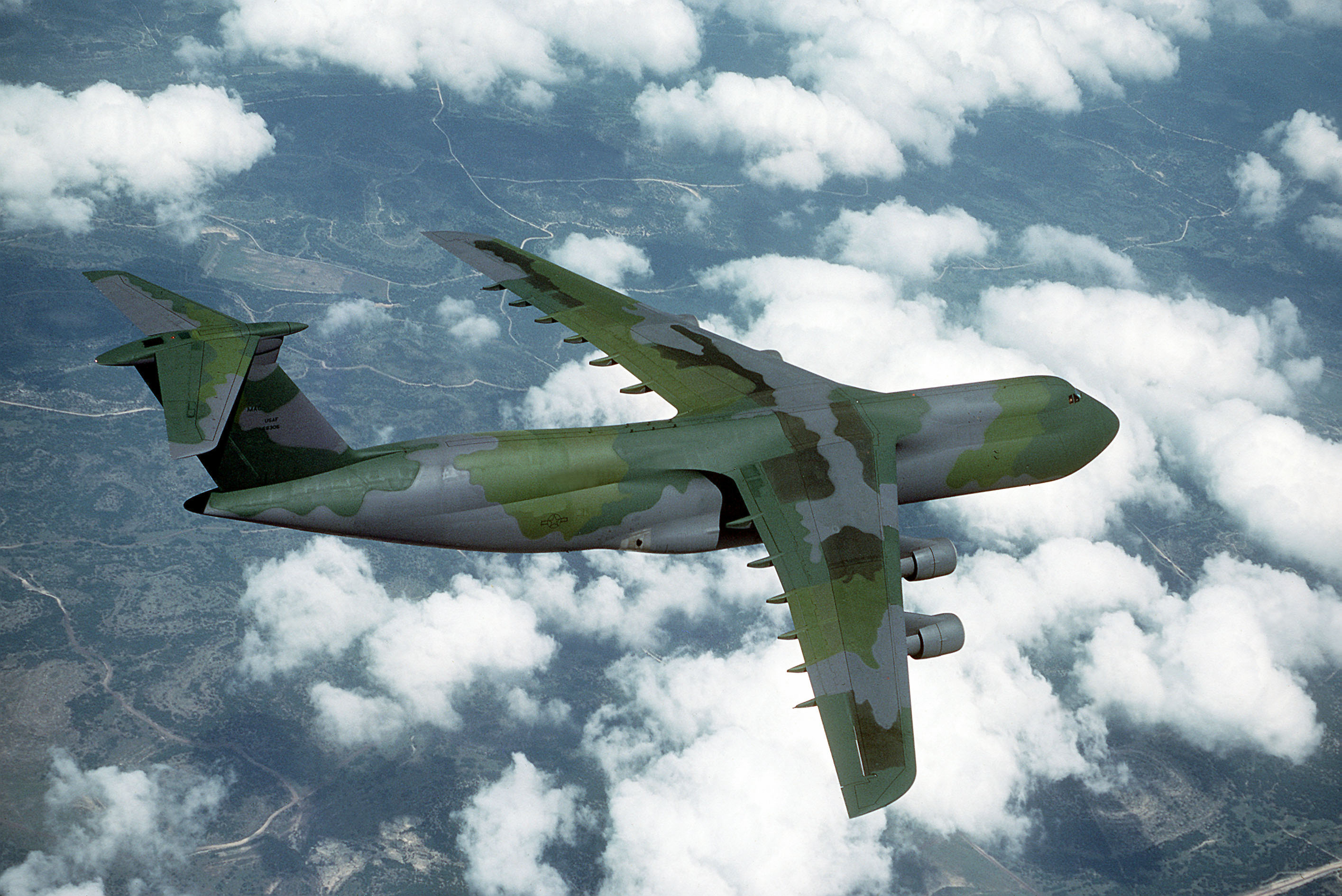 An air-to-air right side view of the first C-5 Galaxy aircraft to be painted in a camouflaged pattern.